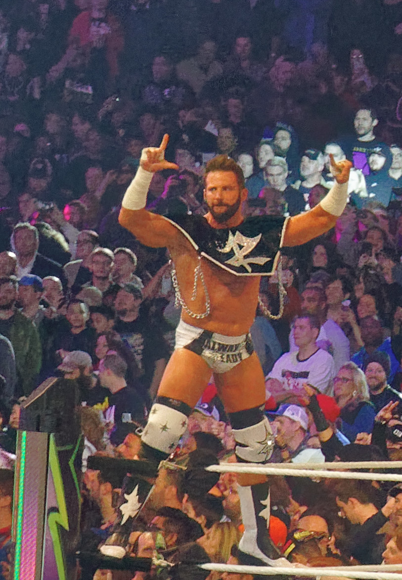 This is an image of wrestlers entering the ring at the WWE event WrestleMania 34